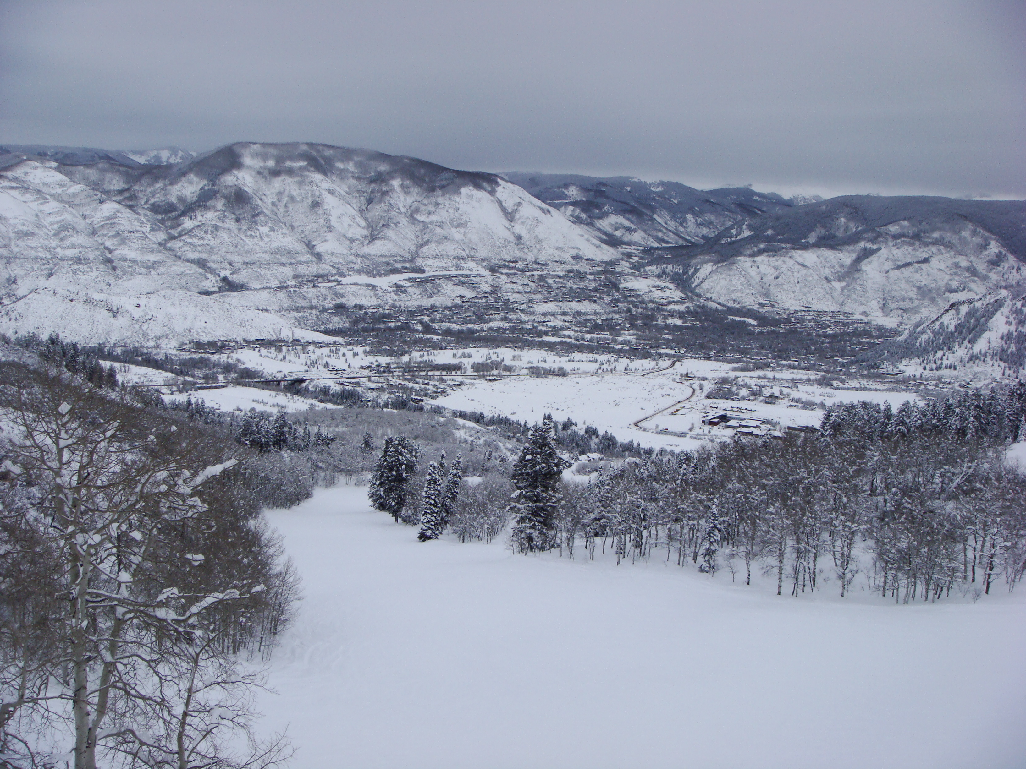 View from Buttermilk, near Aspen, Colorado, in winter.